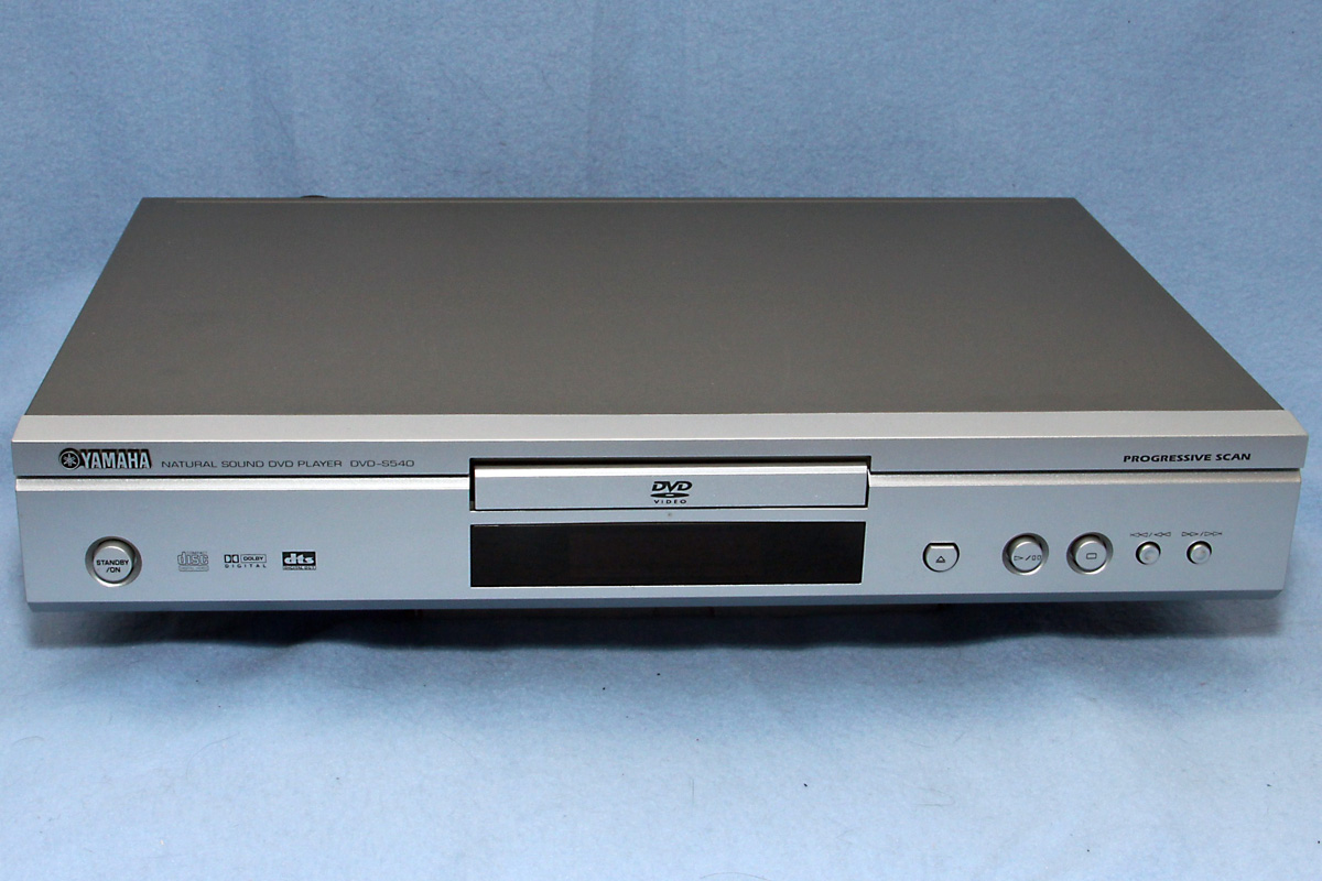 Yamaha Natural Sound DVD Player DVD-S540